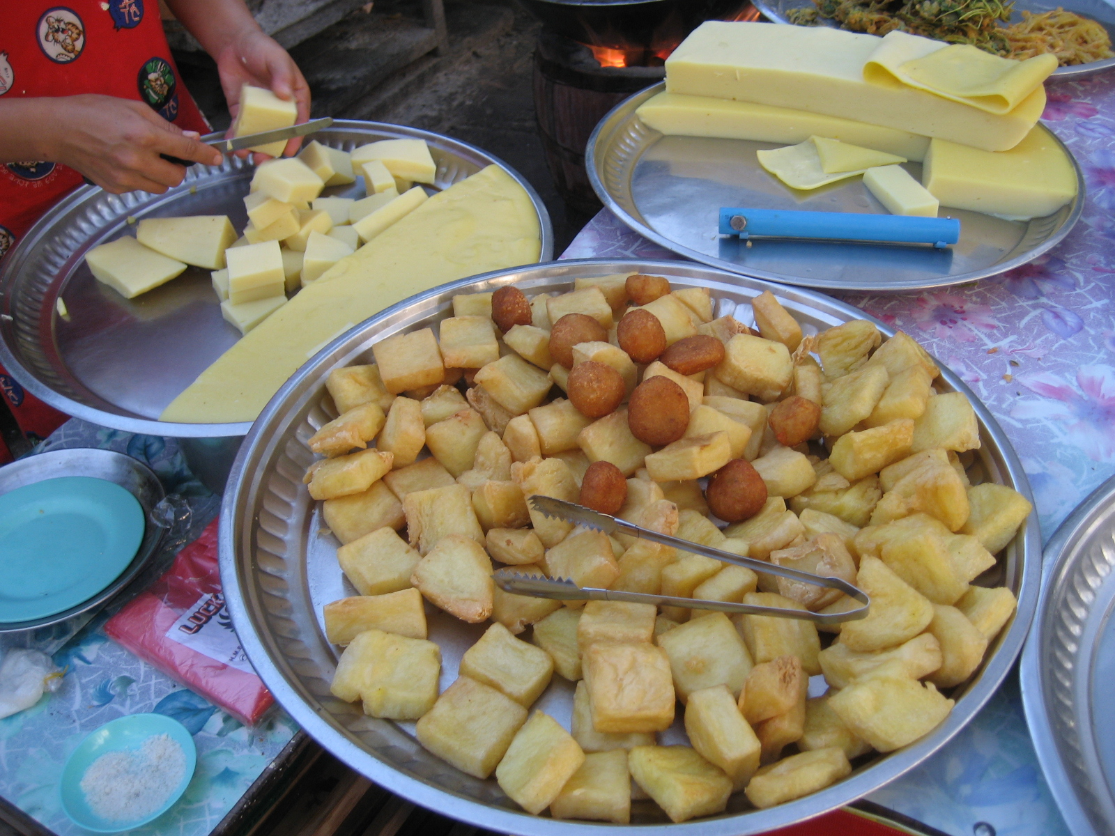 Burmese tofu or to hpu (made from besan, or kala chana flour), fresh ready to be eaten as a salad or fried (fritters shown here with a few potato fritters on top). Photo taken at one of the shops on the shore of Inya lake near the boatclub on Inya Road, Yangon, Myanmar.